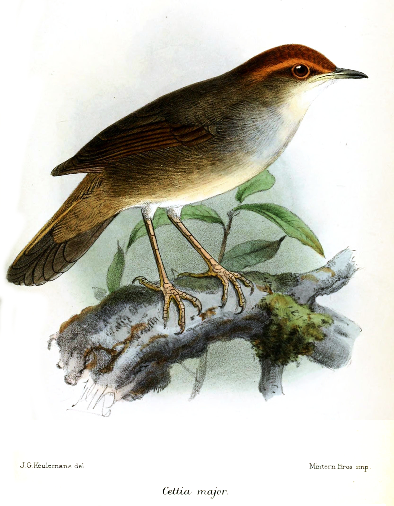 Cettia major, Chestnut-crowned Bush-warbler